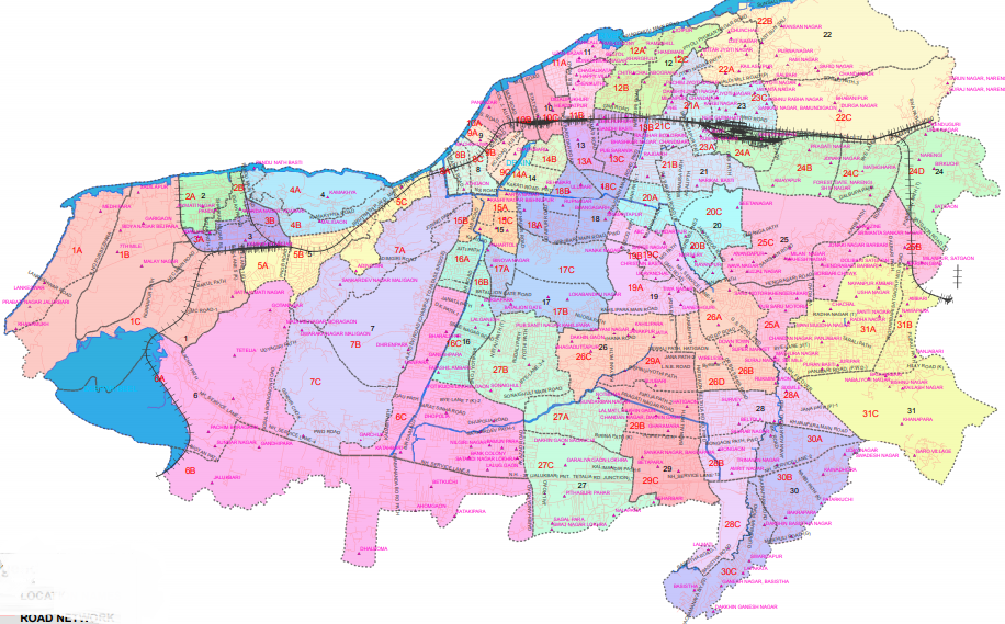 Map of Guwahati city